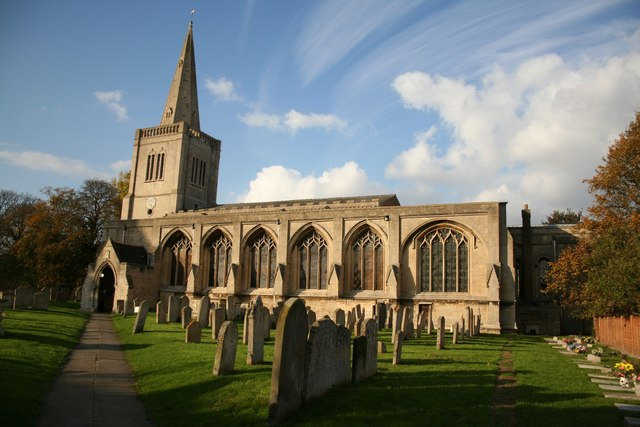 Priory church of Deeping St.James Originally founded in 1139 as part of a Benedictine Priory